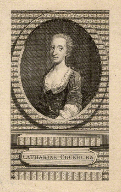 Portrait of Catharine Cockburn (Trotter)